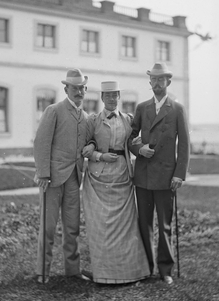 Victoria of Baden surrounded by her cousin Maximilian von Baden (left) and her fiancee crown prince Gustav (right). The building behind them is Tullgarn castle south of Stockholm.